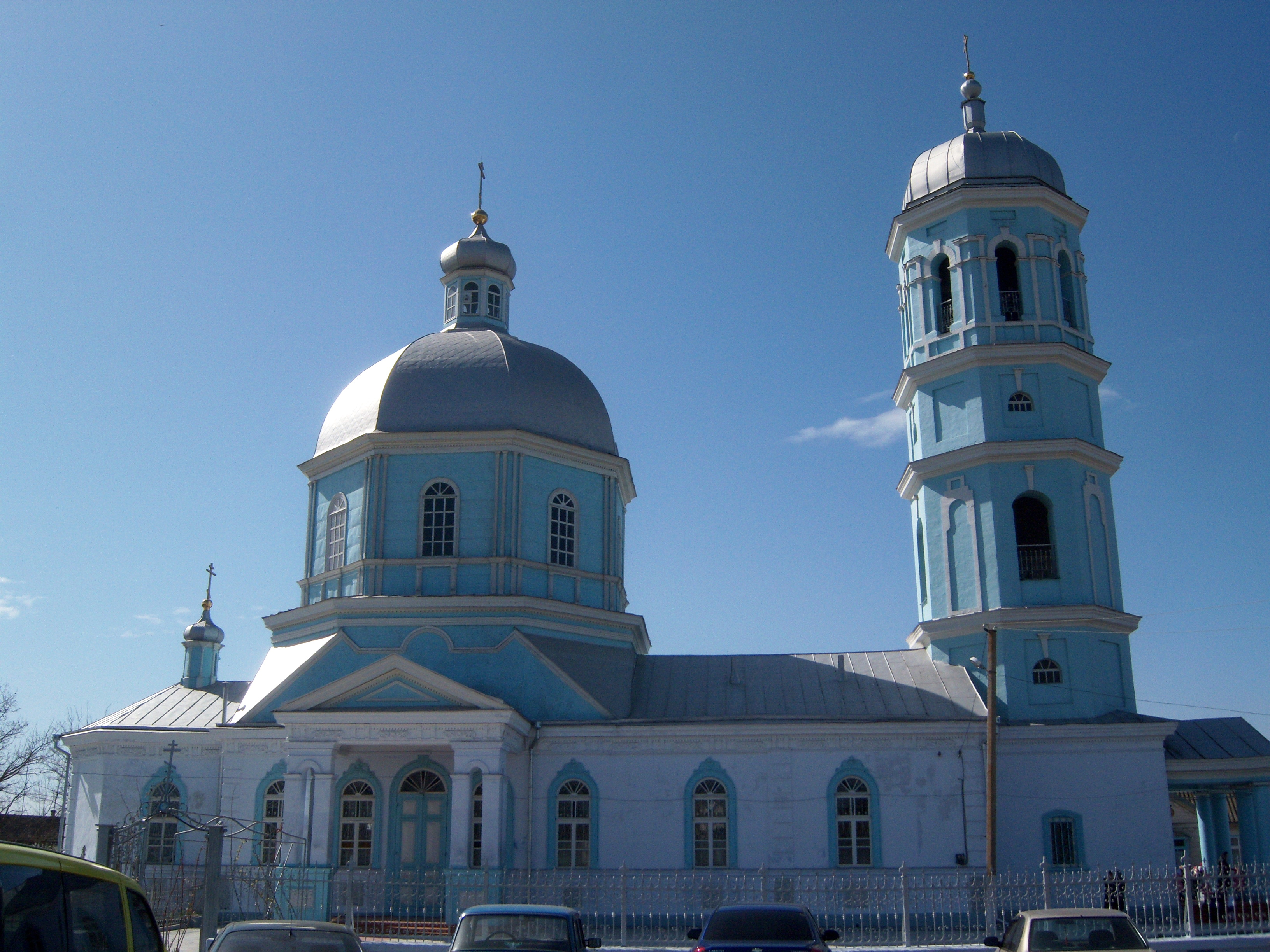 A picture of the Old-believers (Lipovanian) church of Our Lady of Kazan, Prymorskoe, Kiliyski Raion, Odessa Oblast.